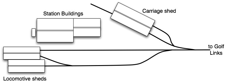 Diagram of Rye Station on the Rye and Camber Tramway